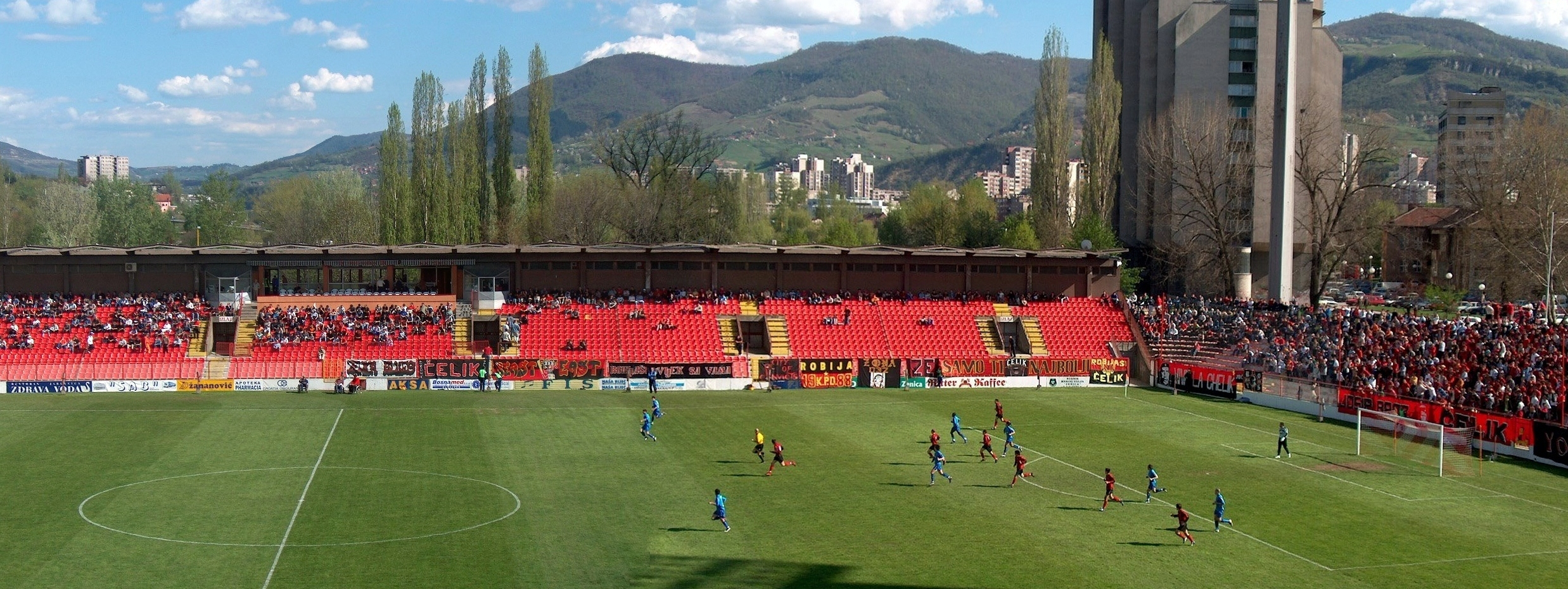 Bilino Polje Stadion in Zenica. View on East section.